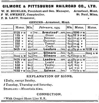 Public timetable of the Gilmore and Pittsburgh Railroad, first issued in 1910 and updated periodically thereafter. This image shows the railway schedules current as of February 1935. The railway's corporate officers are listed, and all station stops along the route are shown.